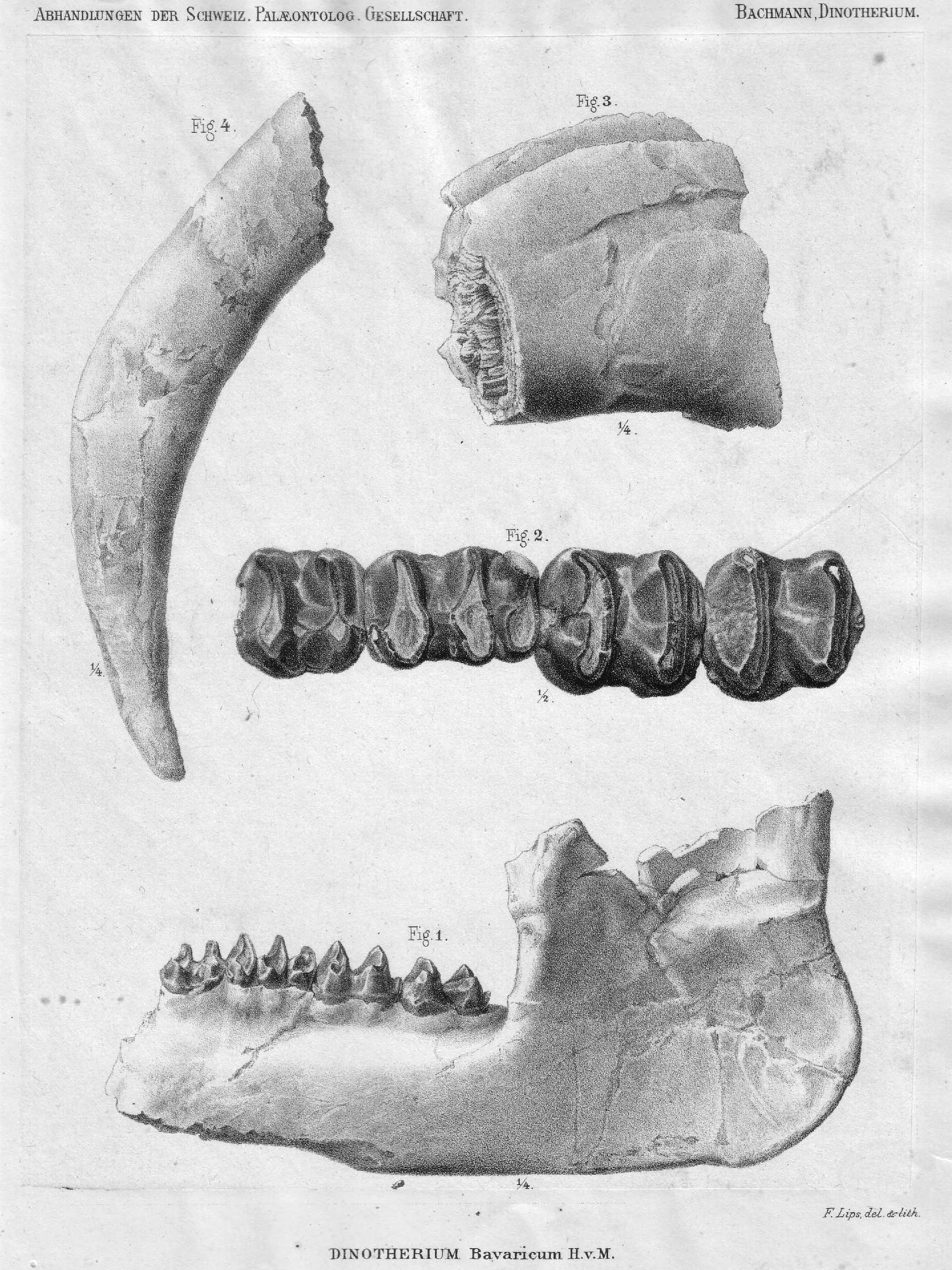 Skull elements of Prodeinotherium bavaricum. 1: Left lower jaw. 2: Tooth row of the same jaw. 3: Mid section of the lower jaw (symphysis) 4: Right tusk.